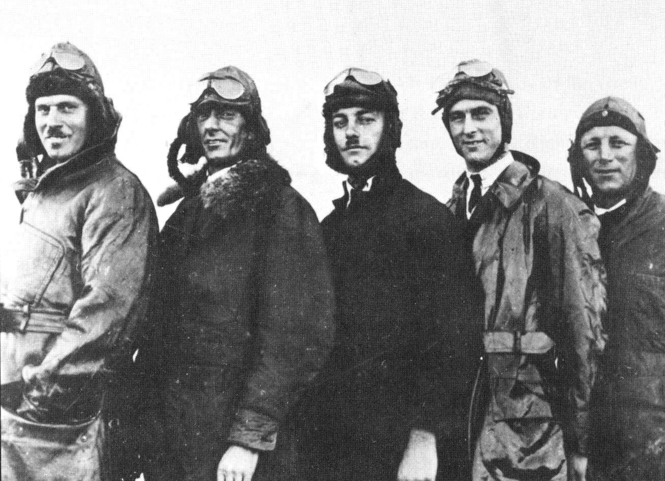 RAAF Richmond, New South Wales. Originals of the re-formed No. 3 Squadron. Left to right: Flying Officers Hammond, Sutherland, Duncan, Ross, Murphy.